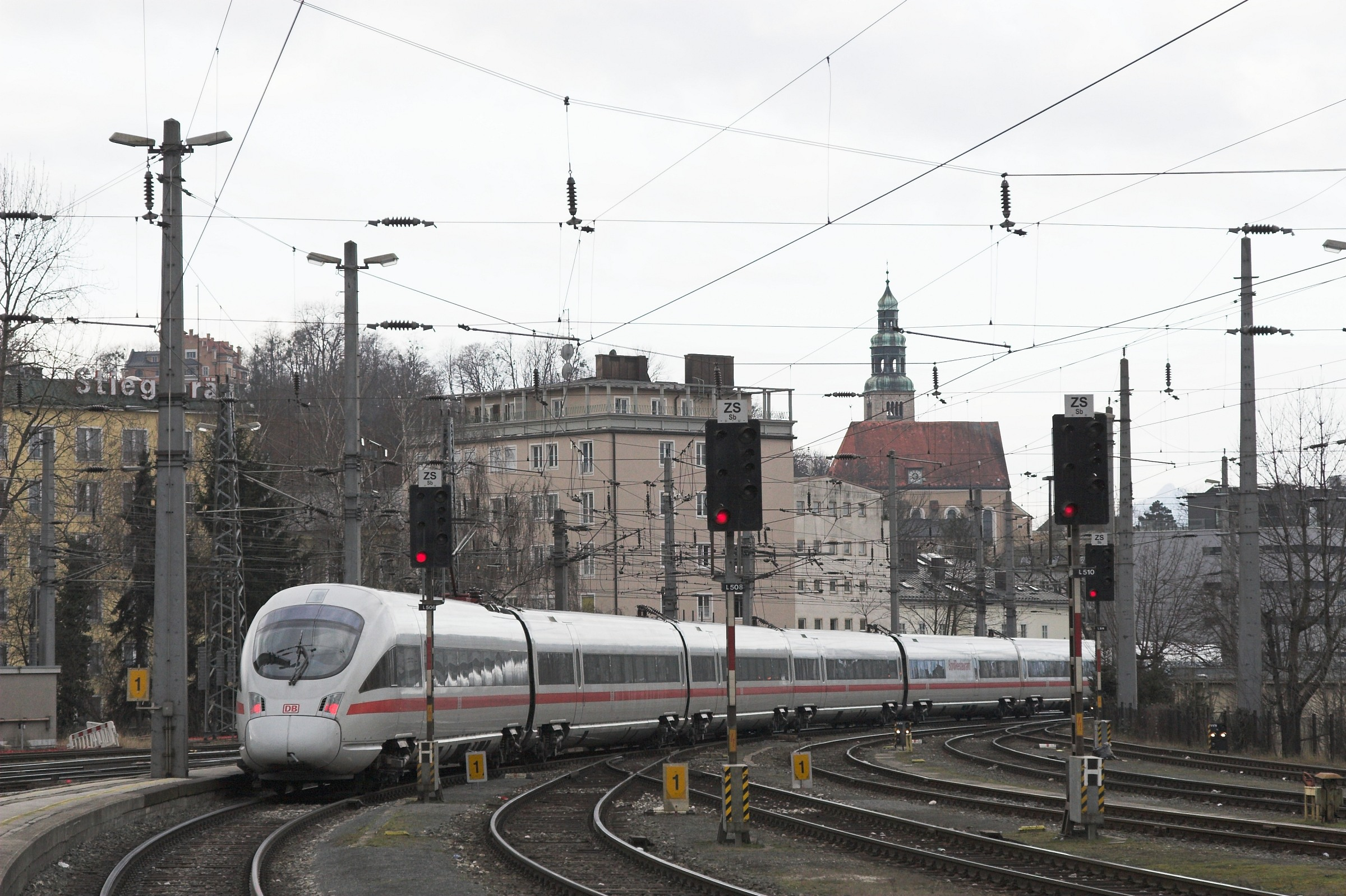 A DB ICE T leaves Salzburg Hauptbahnhof in western direction.